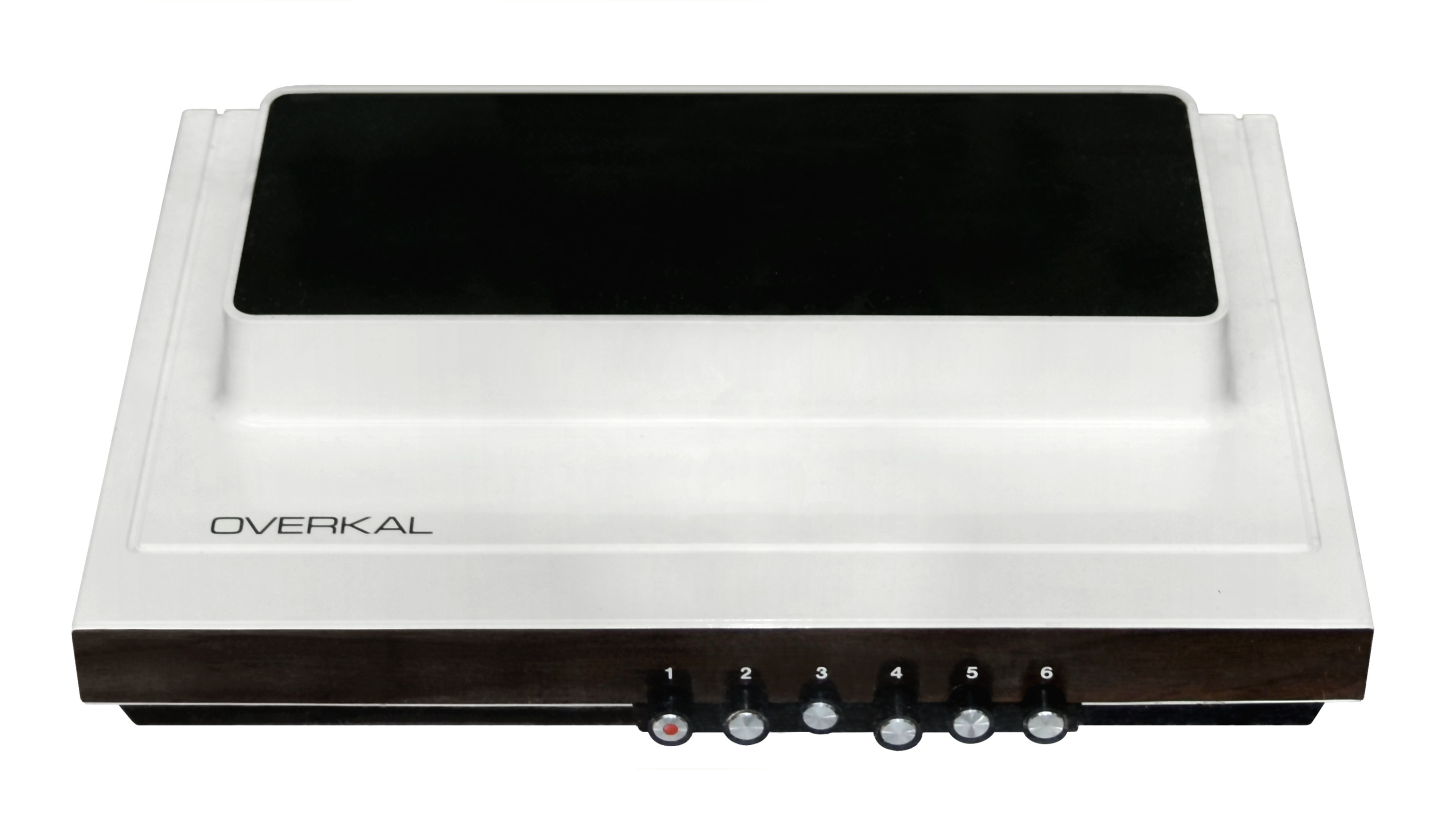 Inter Electrónica S. A. - Overkal (1974) clone of the Magnavox Odyssey console. Probably the first european console.